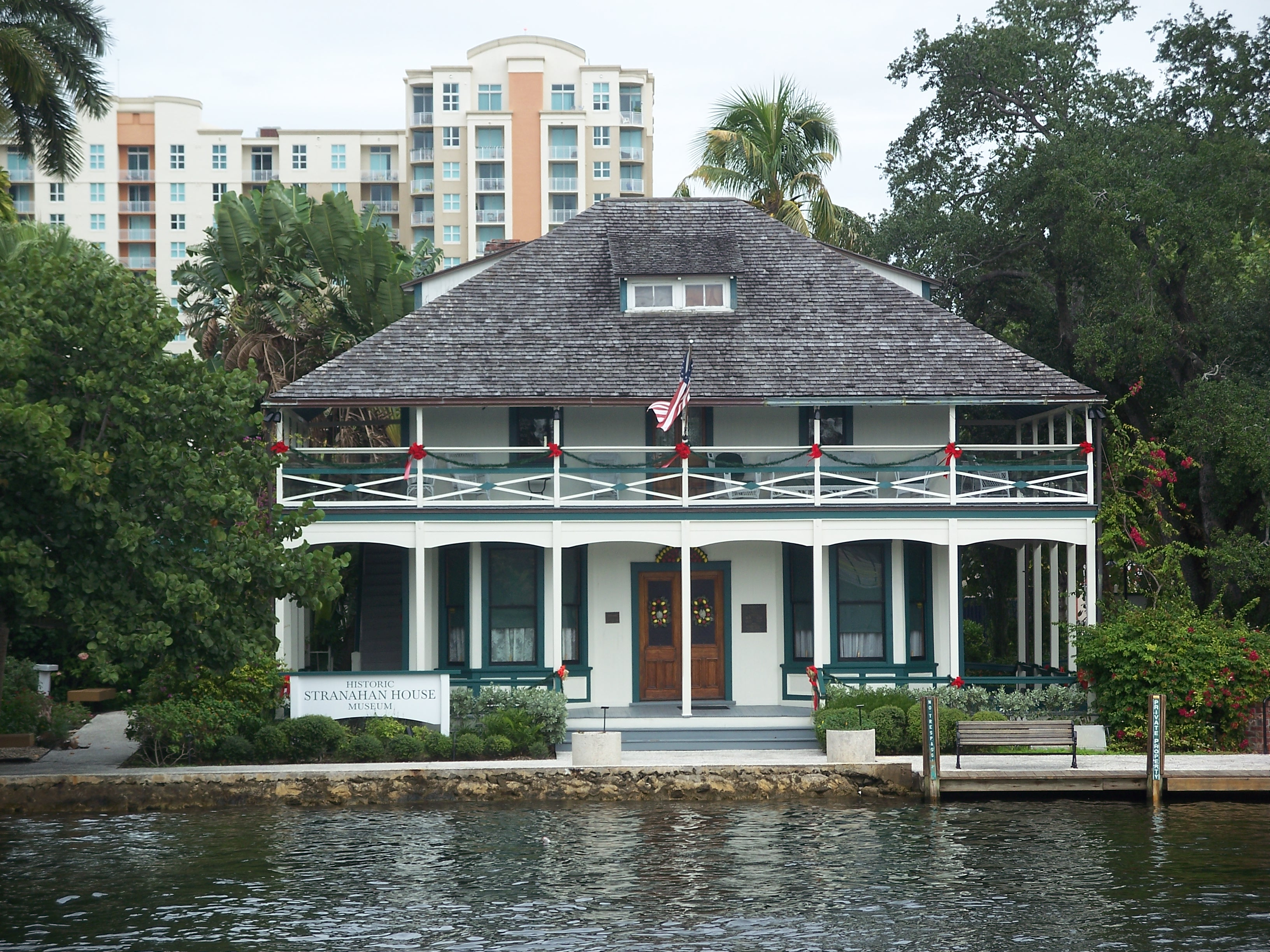 Fort Lauderdale, Florida: Stranahan House